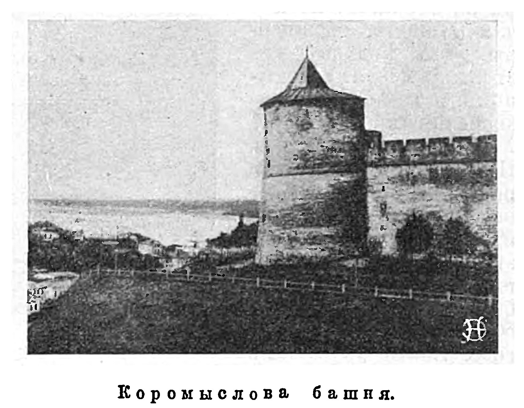 Nizhny Novgorod Kremlin. Military Encyclopedia. Vol. 17 (Saint-Petersburg, 1914). Чӑвашла: Чулхула кремлĕ — Чулхула варриинчи карман, хулан тахçанхи авалхи пайĕ, тĕп пĕрлĕх-политика тата истори-ӳнер комплексĕ.